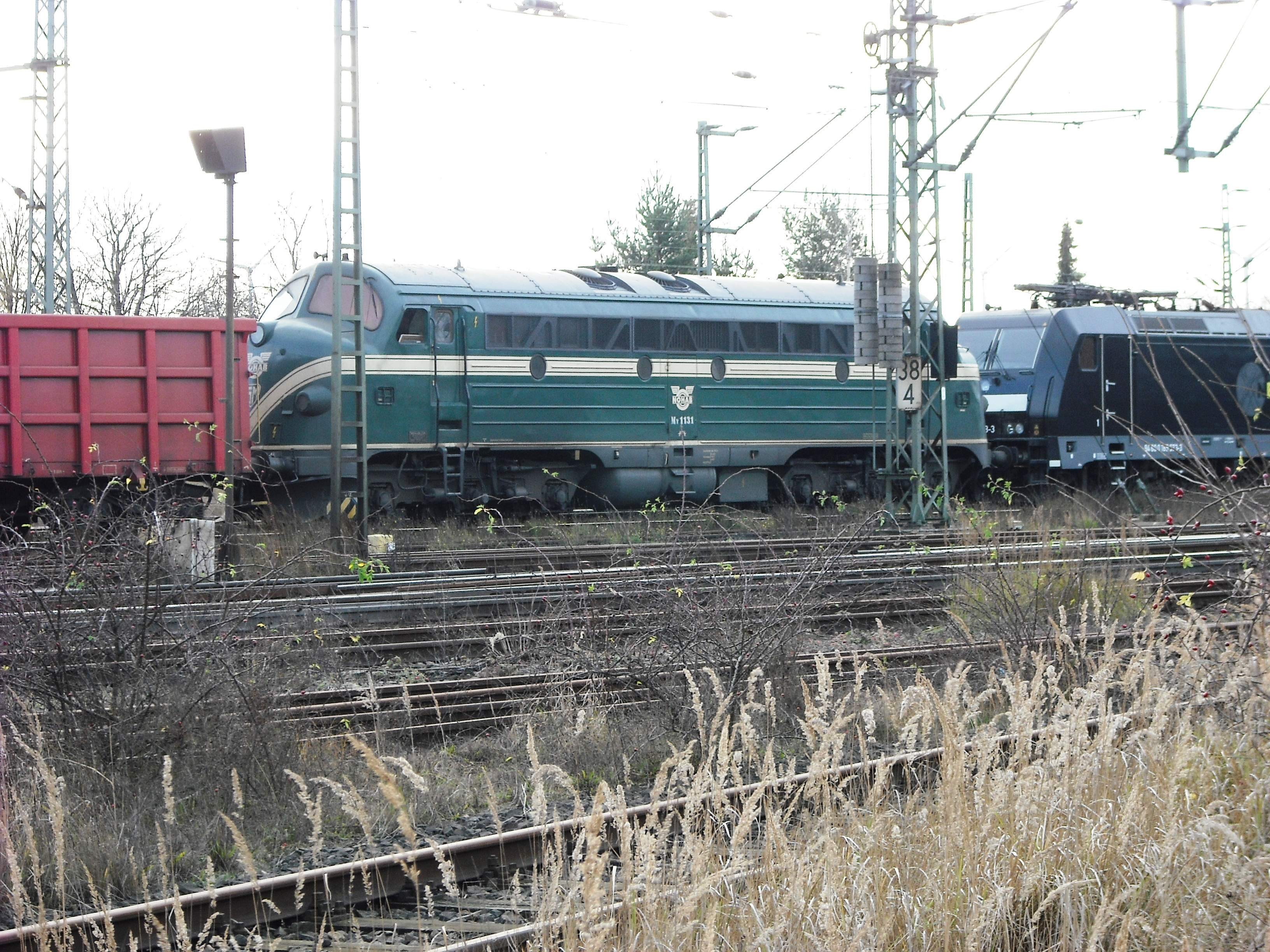 Nohab My1131, Owner: Eichholz GmbH, Helmstedt Station, 29.11.2009